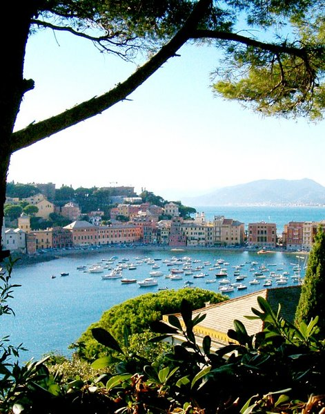 Sestri Levante Picture taken by user:Idéfix, september 2004